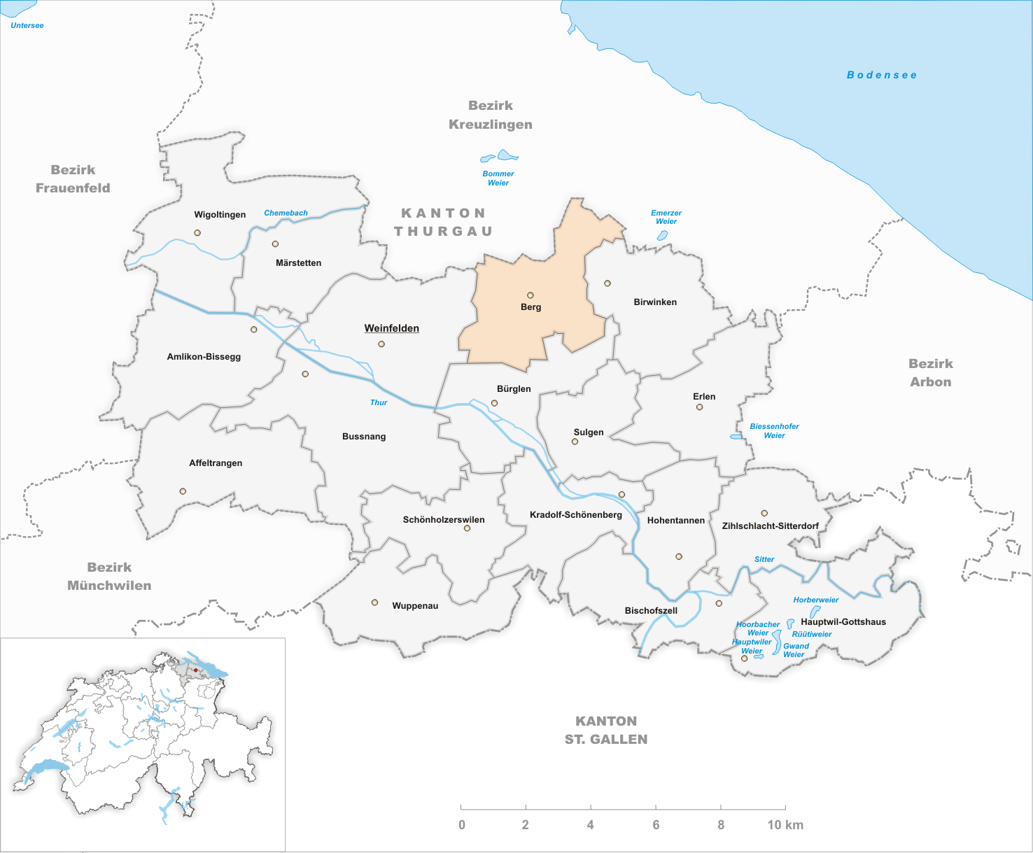 Municipality Berg